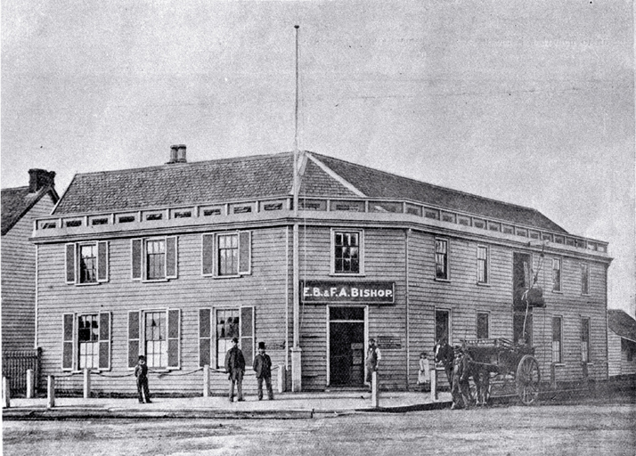 E.B. & F.A. Bishop were wine and spirits merchants. Edward B. Bishop (1811–1887) was a Mayor of Christchurch in 1873. His brother was Frederick Augustus Bishop (1818–1894).